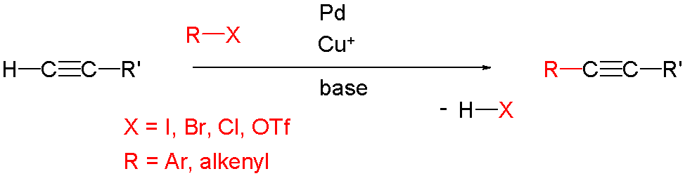 Sonogashira coupling